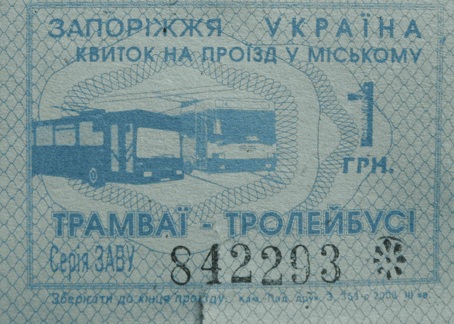 Tickets for tramways and trolleybus at Zaporizhzhya in Ukraina